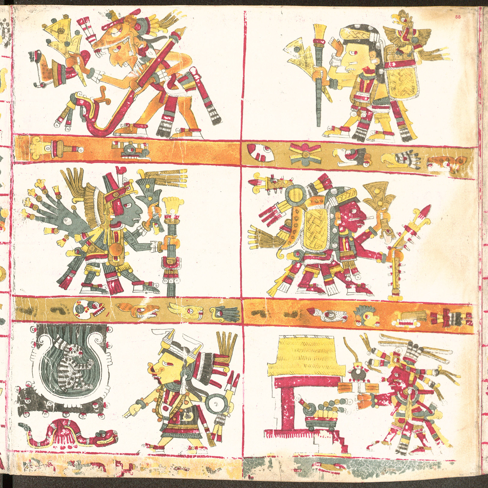 Page 55 of the Codex Borgia.